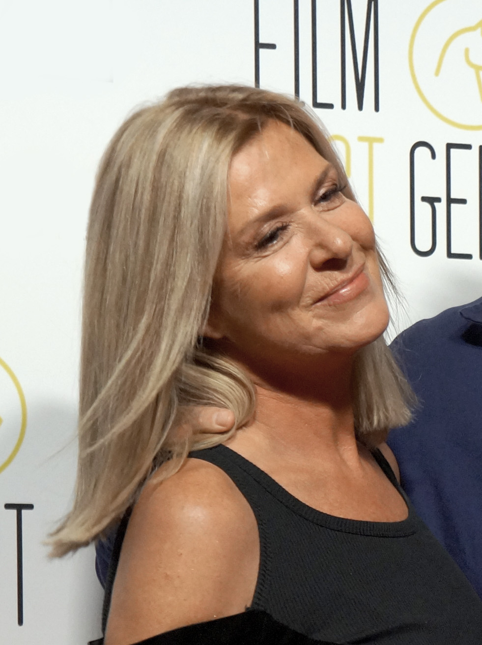 Barbara Sarafian op FilmFest Gent 2019 bij de première van "All of Us".